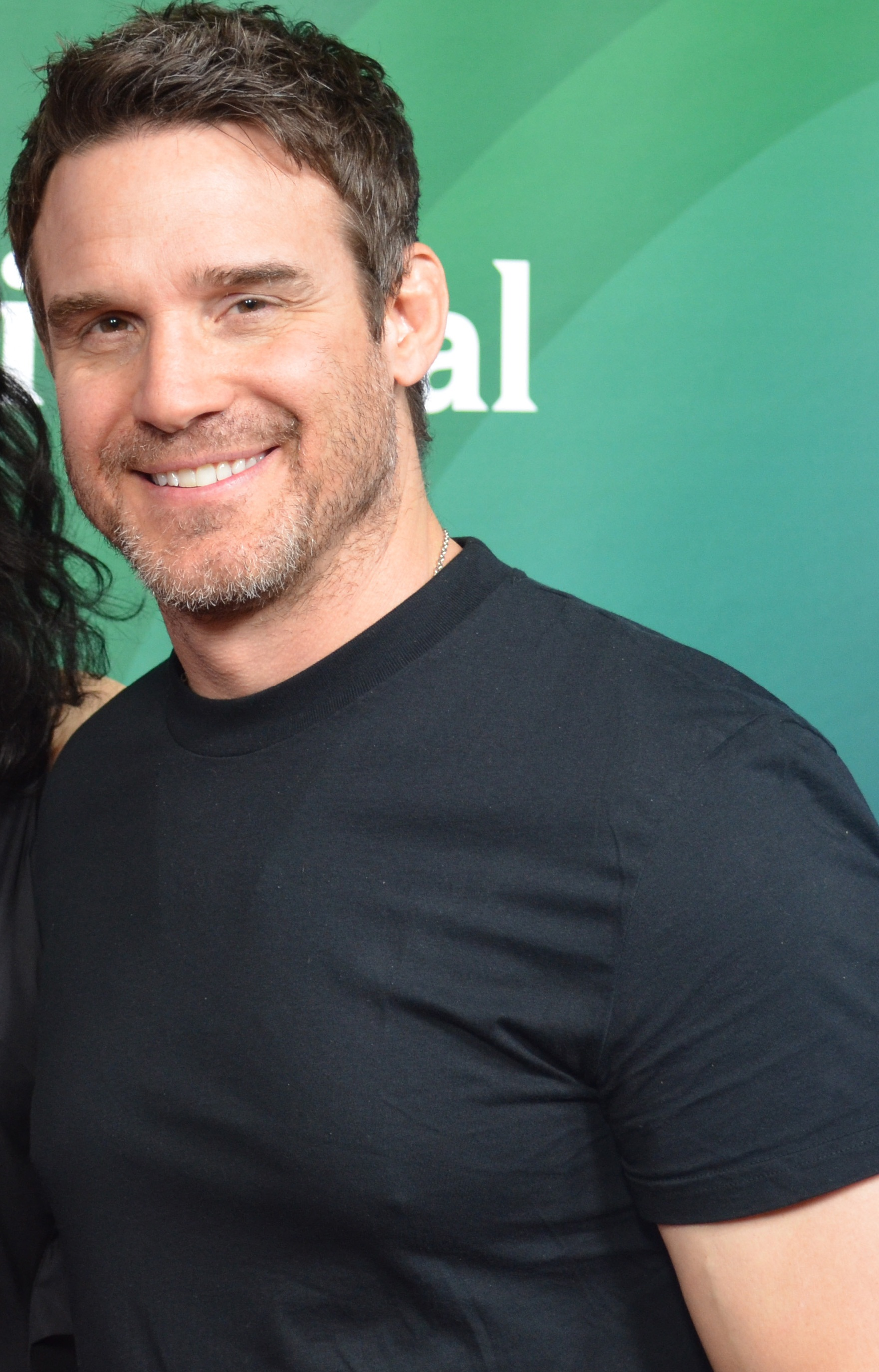 Eddie McClintock at the NBCUniversal Summer press day in Pasadena at the Langham Huntington Hotel. It was a long red carpet starting at 9 AM and going through to after 6 PM.